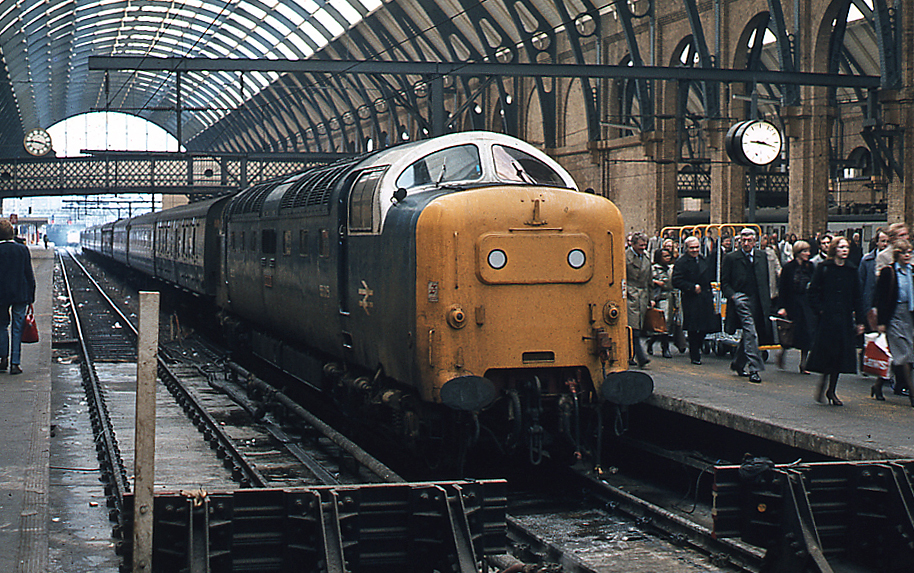 Thought to be just arrived with a train from Peterborough, this Deltic was difficult to identify and my thanks to Martin Baumann, whose contacts confirm it is 55 015 "Tulyar".